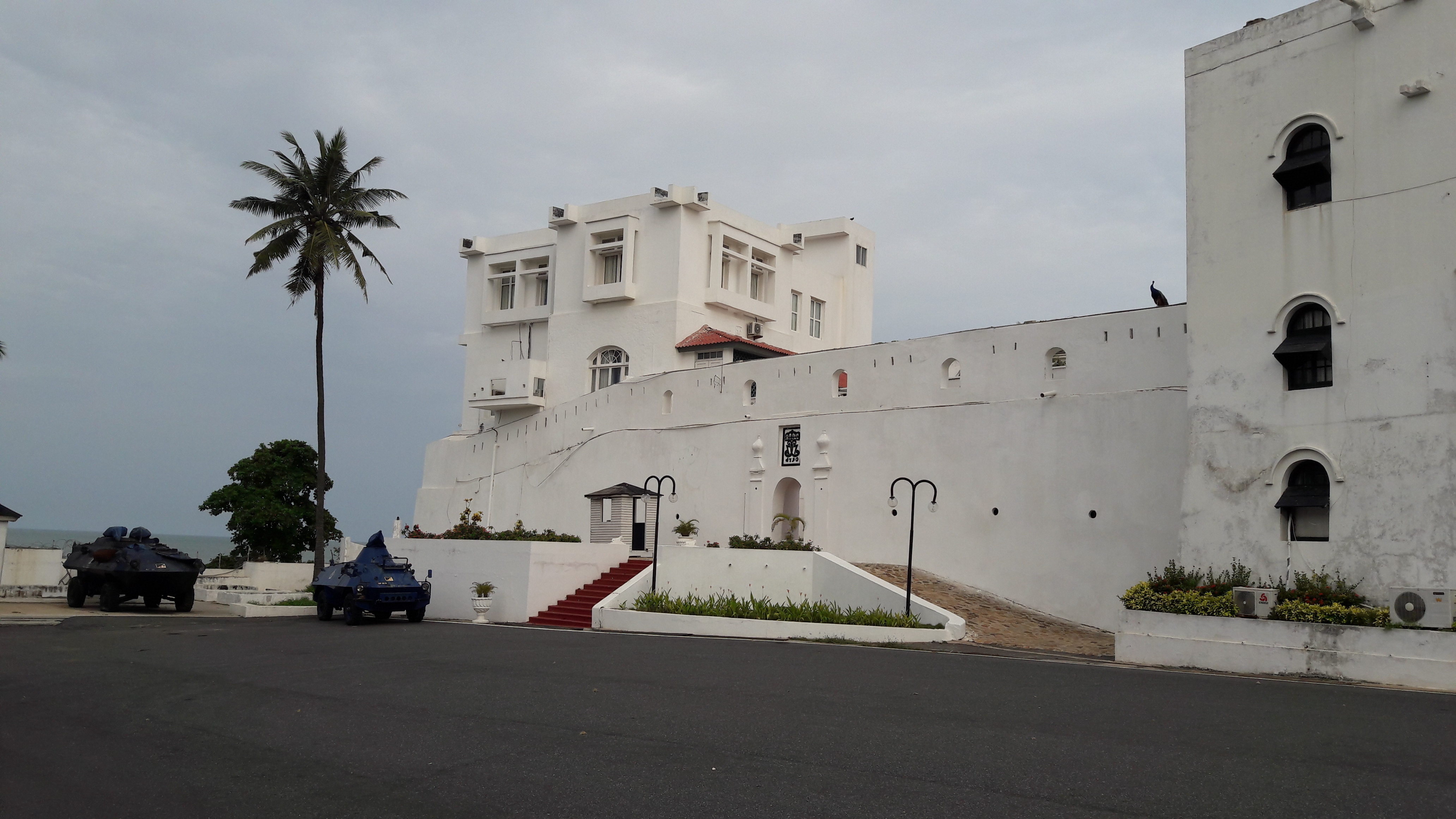 Entrance to Fort Christiansborg after it was opened to the public in 2017.